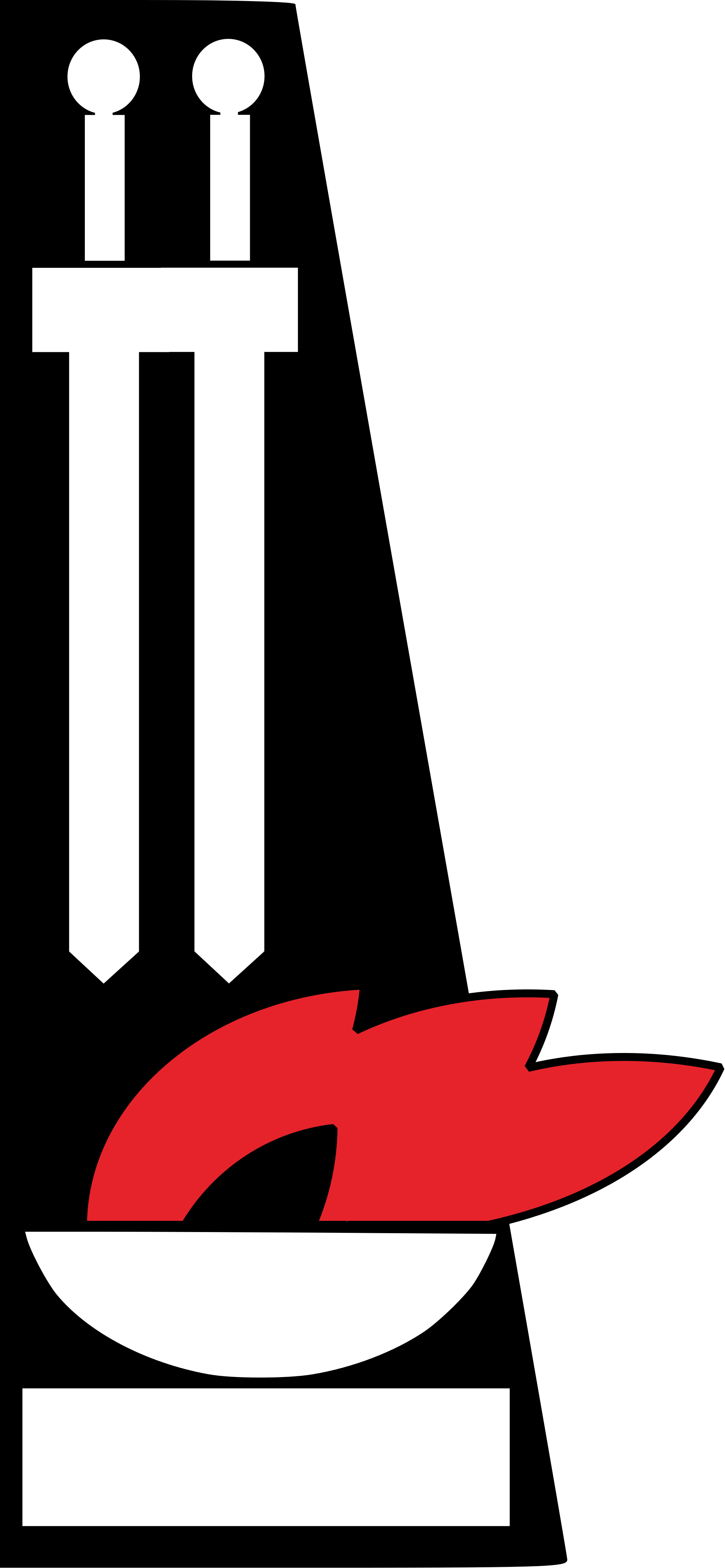 Logo of the Polish Council for Remembrance of Struggle and Martyrdom